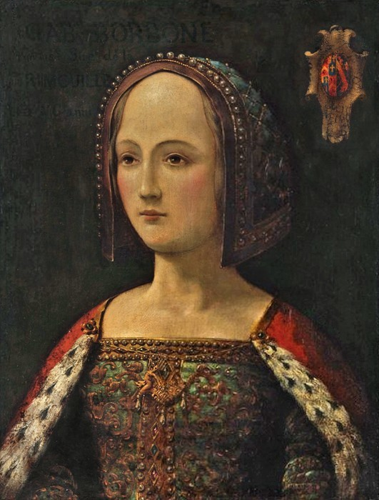 Portrait of Gabrielle de Bourbon-Montpensier (died 1516), first wife of Louis II de la Trémoille, Aged 26 years. About this portrait, see here